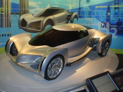 Hy-Wire, General Motors concept car, photographed January 17, 2005 by Adolphus79.